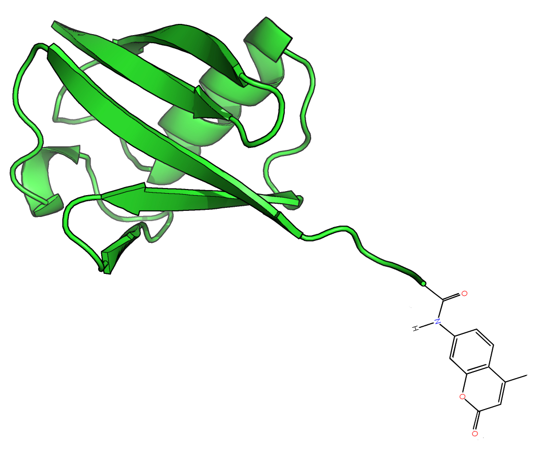 Ubiquitin AMC. Made by combining and adapting images from PyMOL and Chemdraw.